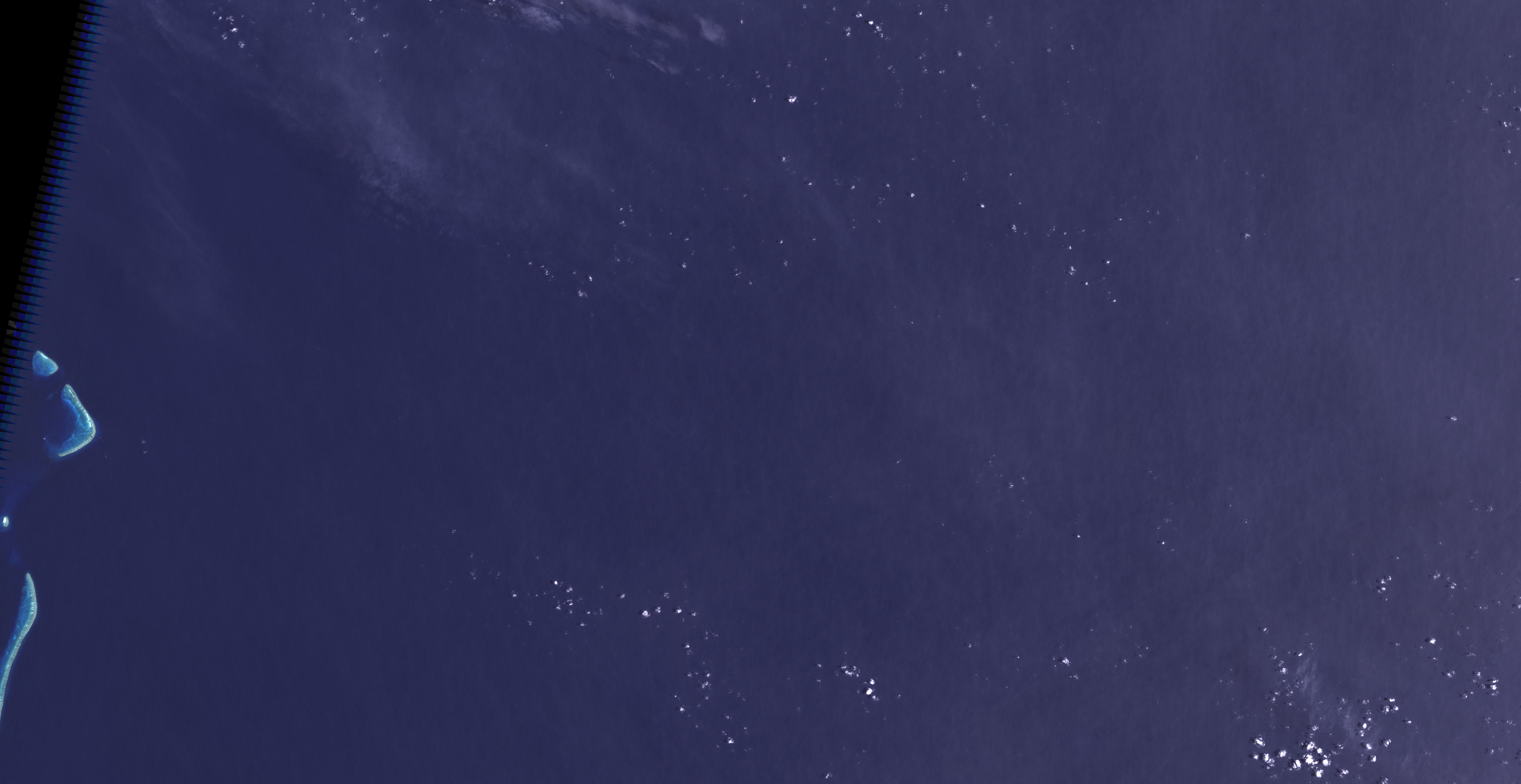 Composite "true color" satellite image of the alleged location of Sandy Island, New Caledonia. Chesterfield Islands are visible to the west. The deepest point that can be discerned in the blue color band, seen near Renard Island (Chesterfield Islands) to the west, is approximately 35m. If Sandy Island were visible in this image, it would be located in the eastern half of the image and would be approximately 850 pixels in height. NASA Landsat 7 ETM+ bands used were 3 (red), 2 (green), 1 (blue), and 8 (panspectral). The image was pan-sharpened, resampled to 30m resolution, and cropped. Imagery courtesy of NASA/USGS.